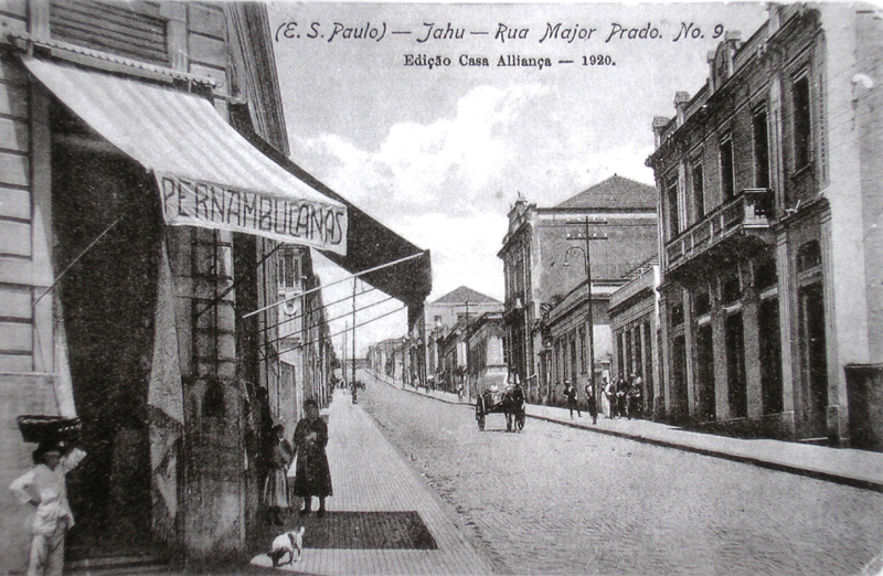 Jaú, 1920